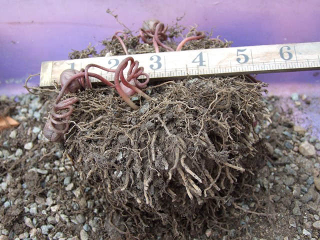 Tuber of Cyclamen africanum unearthed from pot with an inch ruler for reference.